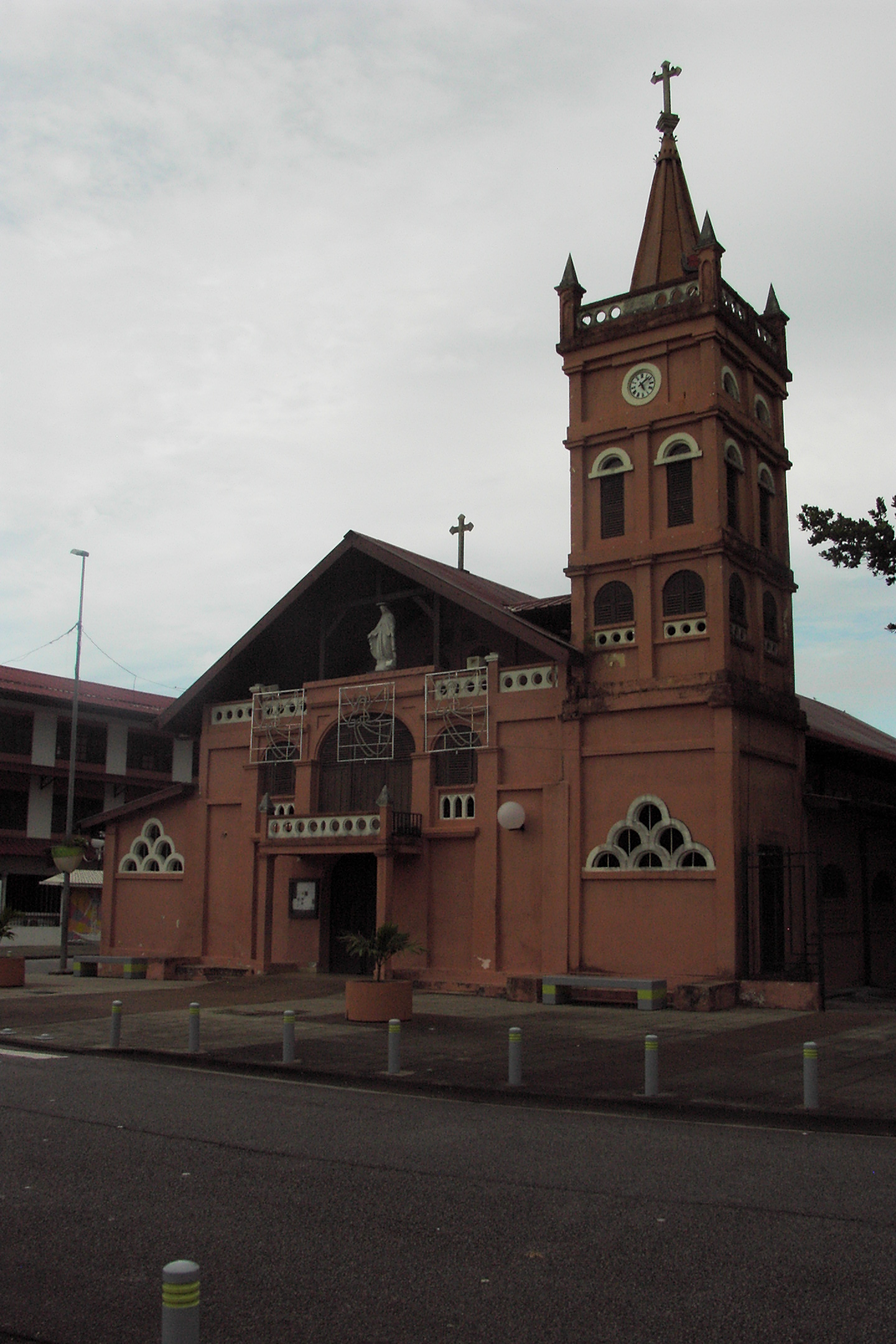 Sinnamary church, French Guiana